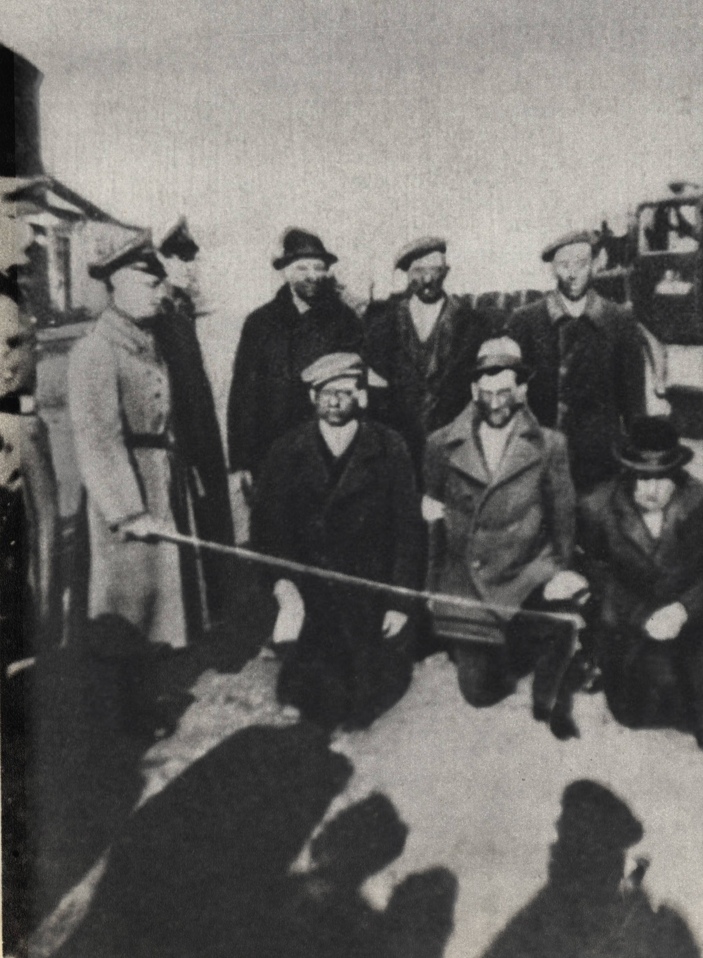 Poland under the Nazi-German occupation, Tarnów ghetto. Jewish men are humiliated and tortured by German policemen.